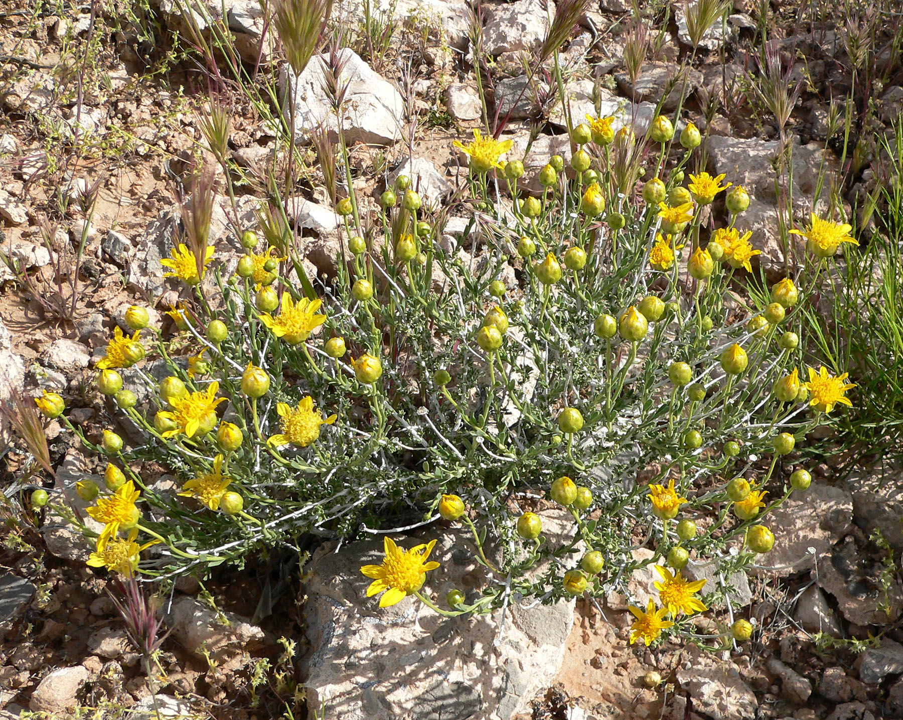 Acamptopappus_shockleyi in the northern end of Red Rock Canyon, southern Nevada